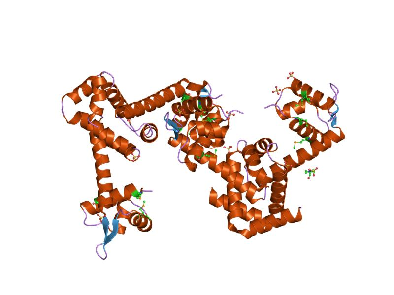 Cartoon representation of the molecular structure of protein registered with 2hyf code.